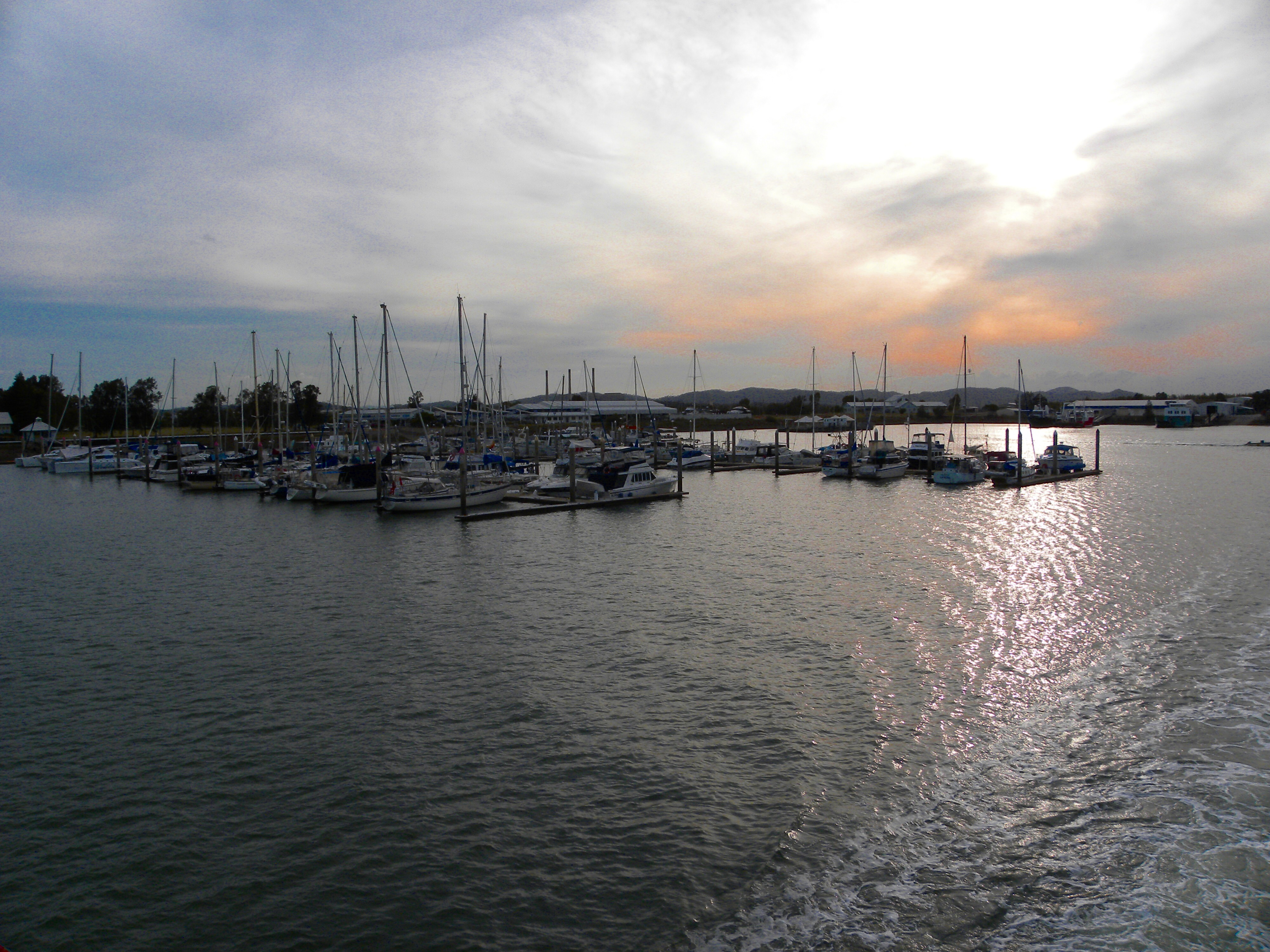 Sunset on Gladstone Harbour, Central Queensland, Australia